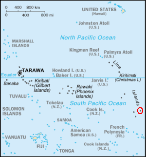 Adapted version of the post-1995 South Pacific section of Image:Kr-map.png, with Caroline Island highlighted.